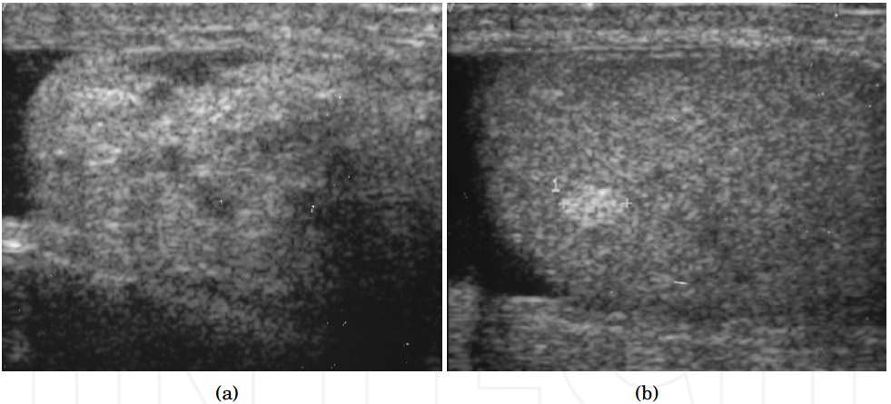 Scrotal ultrasonography of a lipoma